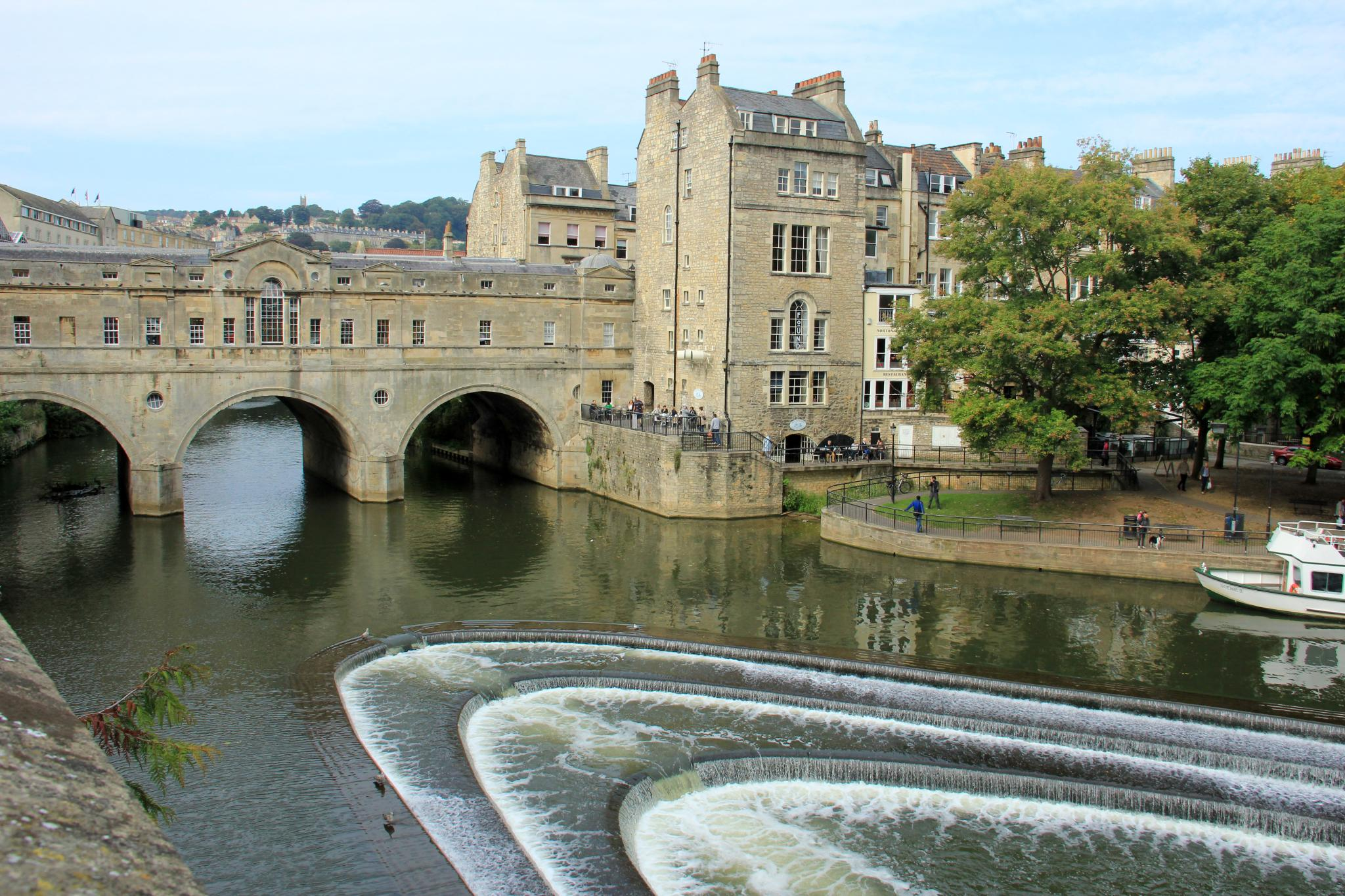 The City of Bath and the beautiful countryside which surrounds it has been described as one of England's most beautiful places to visit. Bath is situated within the south west of England and is a fabulous city to visit. The Roman Baths - Around Britain's only hot springs, the Romans built the finest religious spa in northern Europe. This great temple and bathing complex still flows with natural hot water. The extensive remains and a Roman museum of international significance lie beneath the Pump Room and Abbey Church Yard in the centre of Bath. Pulteney Bridge - crosses the River Avon in Bath, England. It was completed by 1774, and connected the city with the newly built Georgian town of Bathwick. Designed by Robert Adam in a Palladian style, it is one of only four bridges in the world with shops across its full span on both sides. It has been designated as a Grade I listed building.